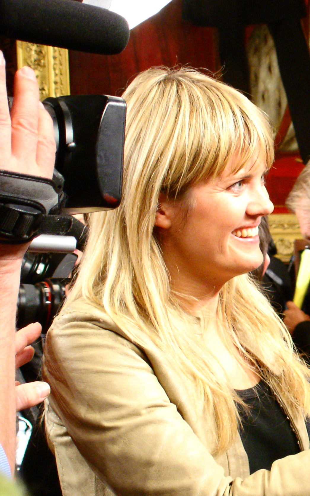 Kirsten Lemaire.